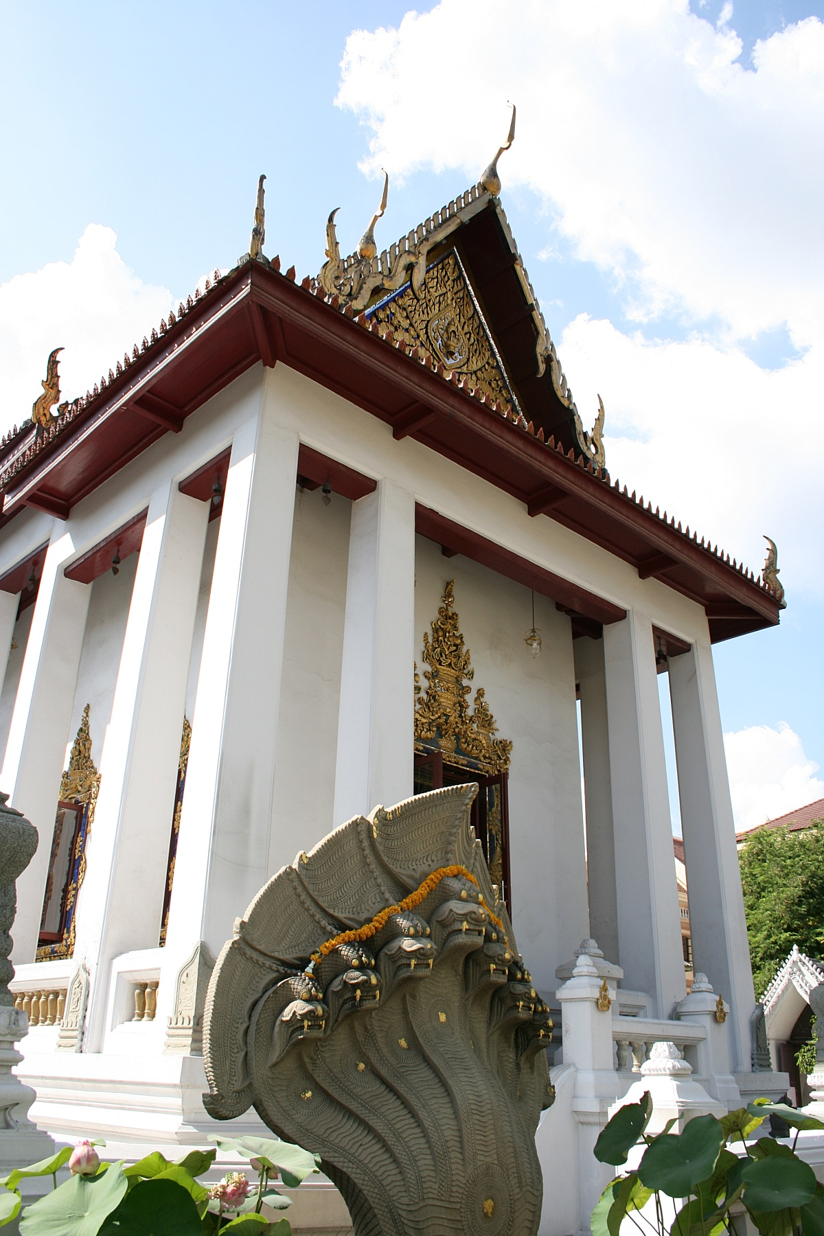 Ubosot of Wat Pathum Wanaram, Pathum Wan, Bangkok.